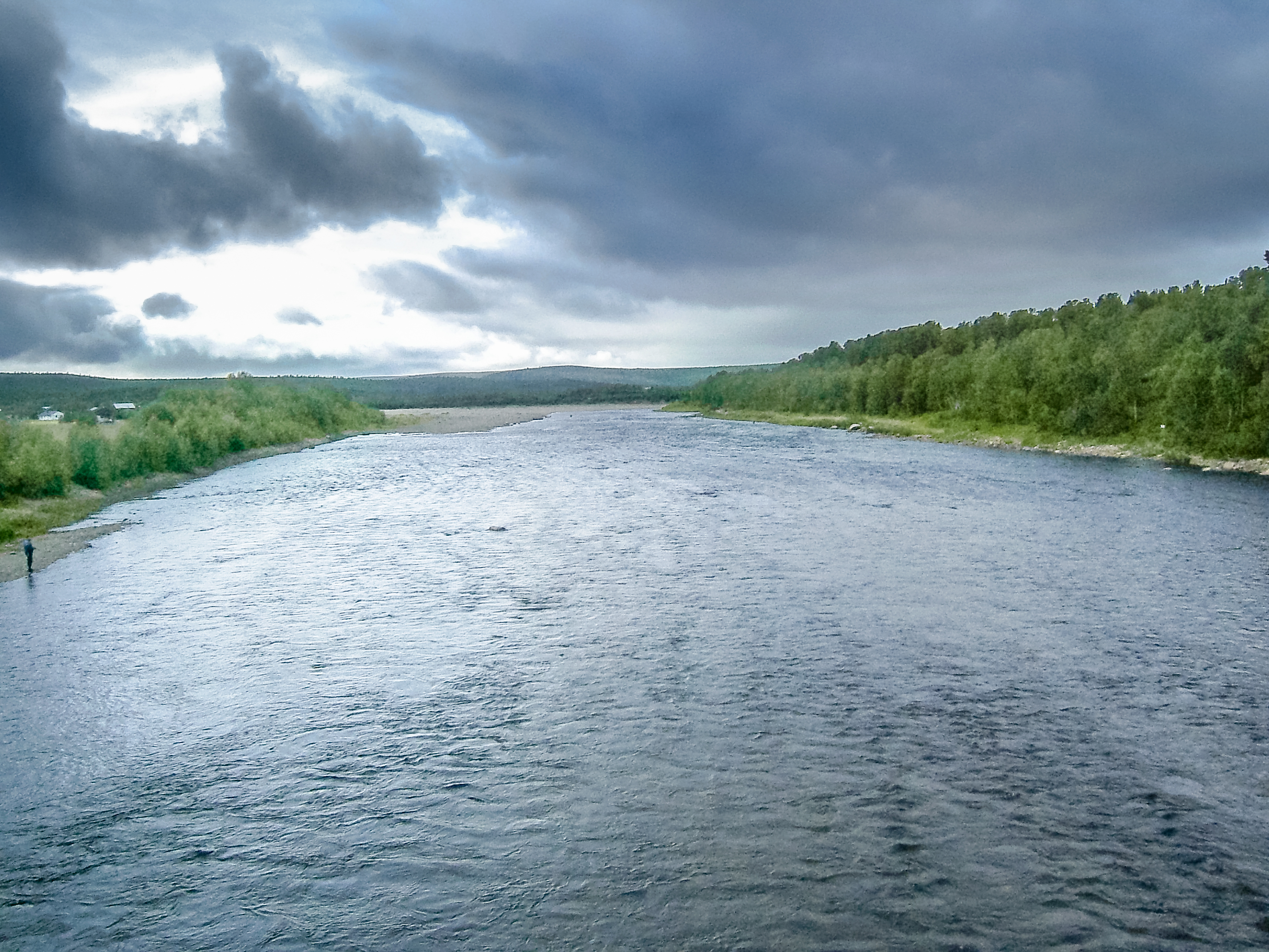 Anarjohka river, Norway/Finland border